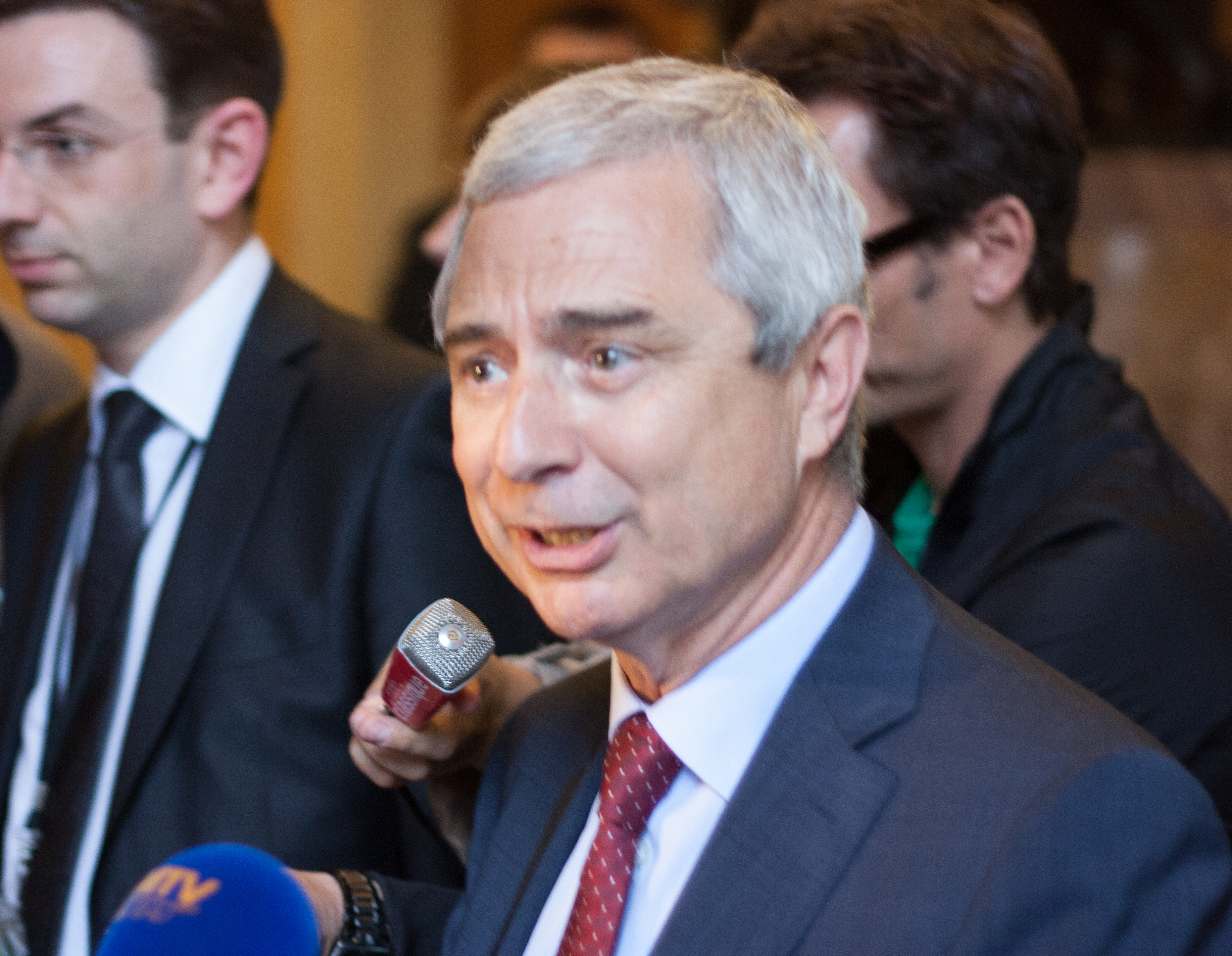 MP of the 14th legislative session of the Fifth Republic (France).